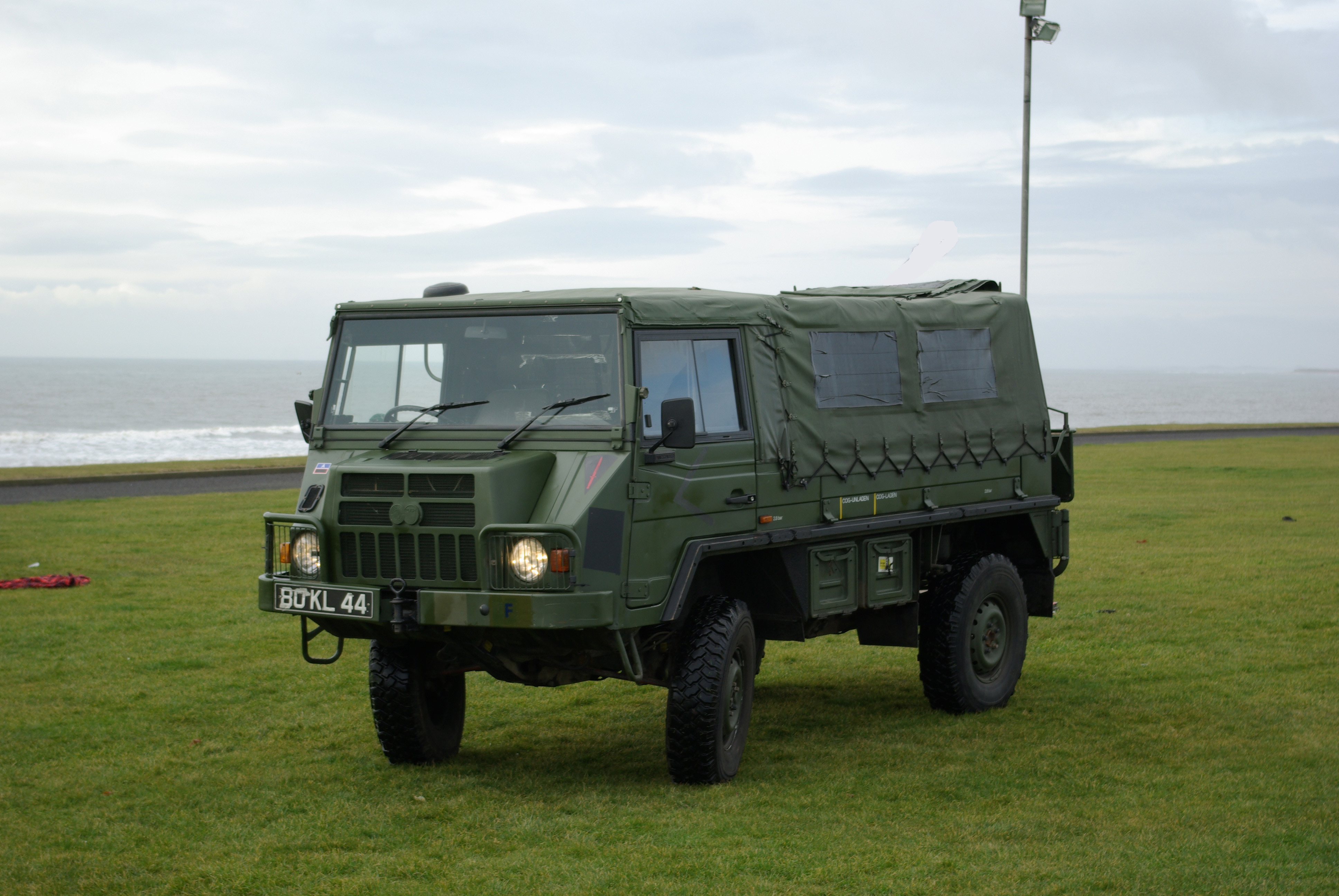 Pinzgauer High Mobility All-Terrain Vehicle of the British Army. These vehicles are used as gun tractors, this unit was employed towing a 105mm Light Gun. This is the 716 model, which is a 4x4 version, betraying it's model number (the 6x6 is the numbered a 718)